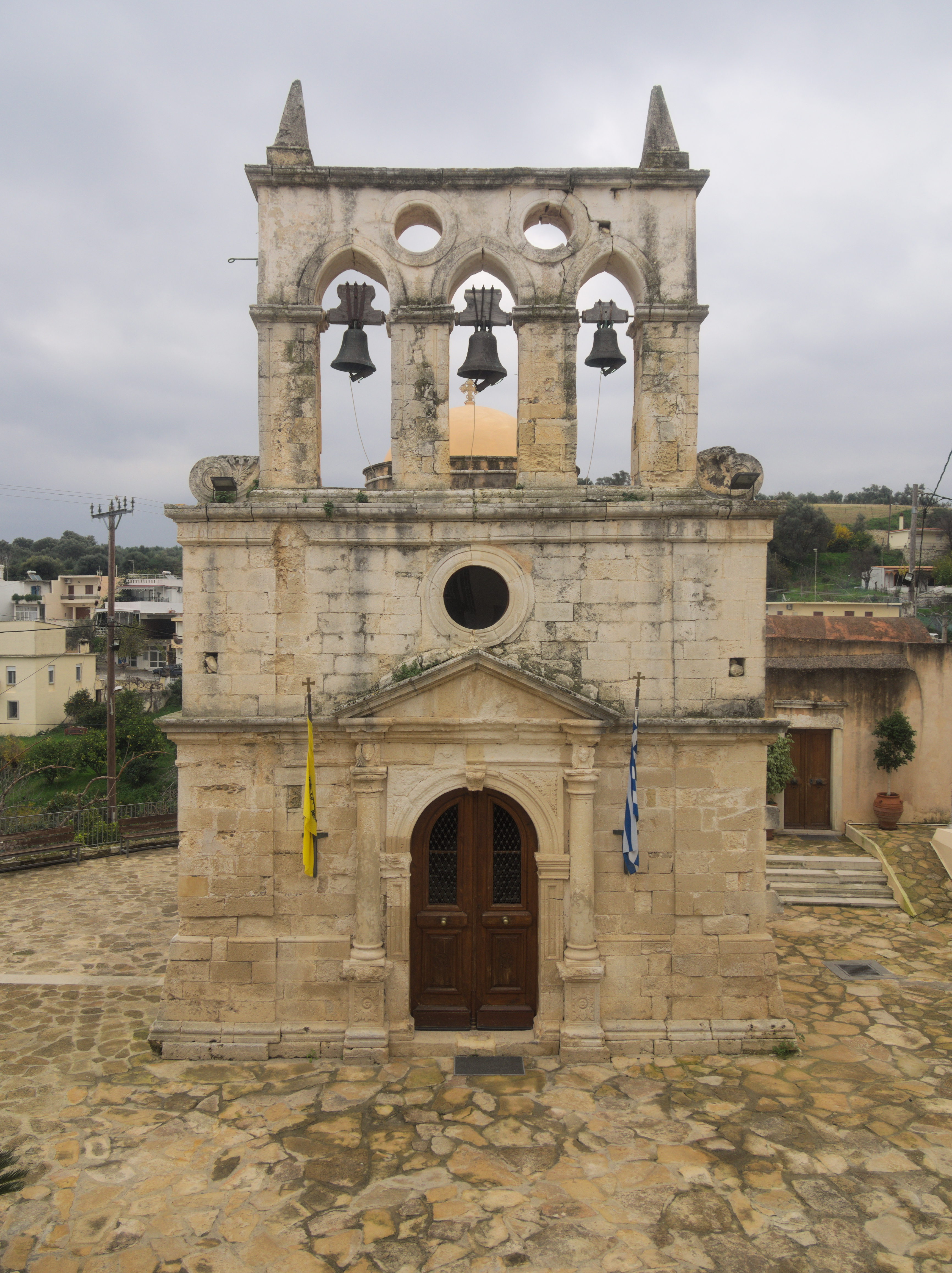 The facade of the byzantine church of Kyrianna, dedicated at Virgin Mary.